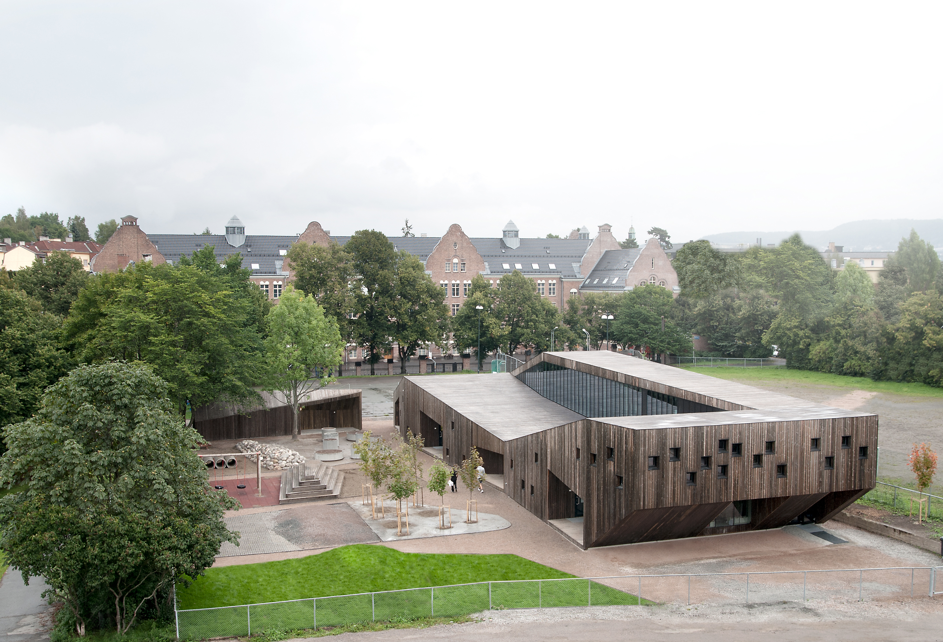 Fagerborg Kindergaten